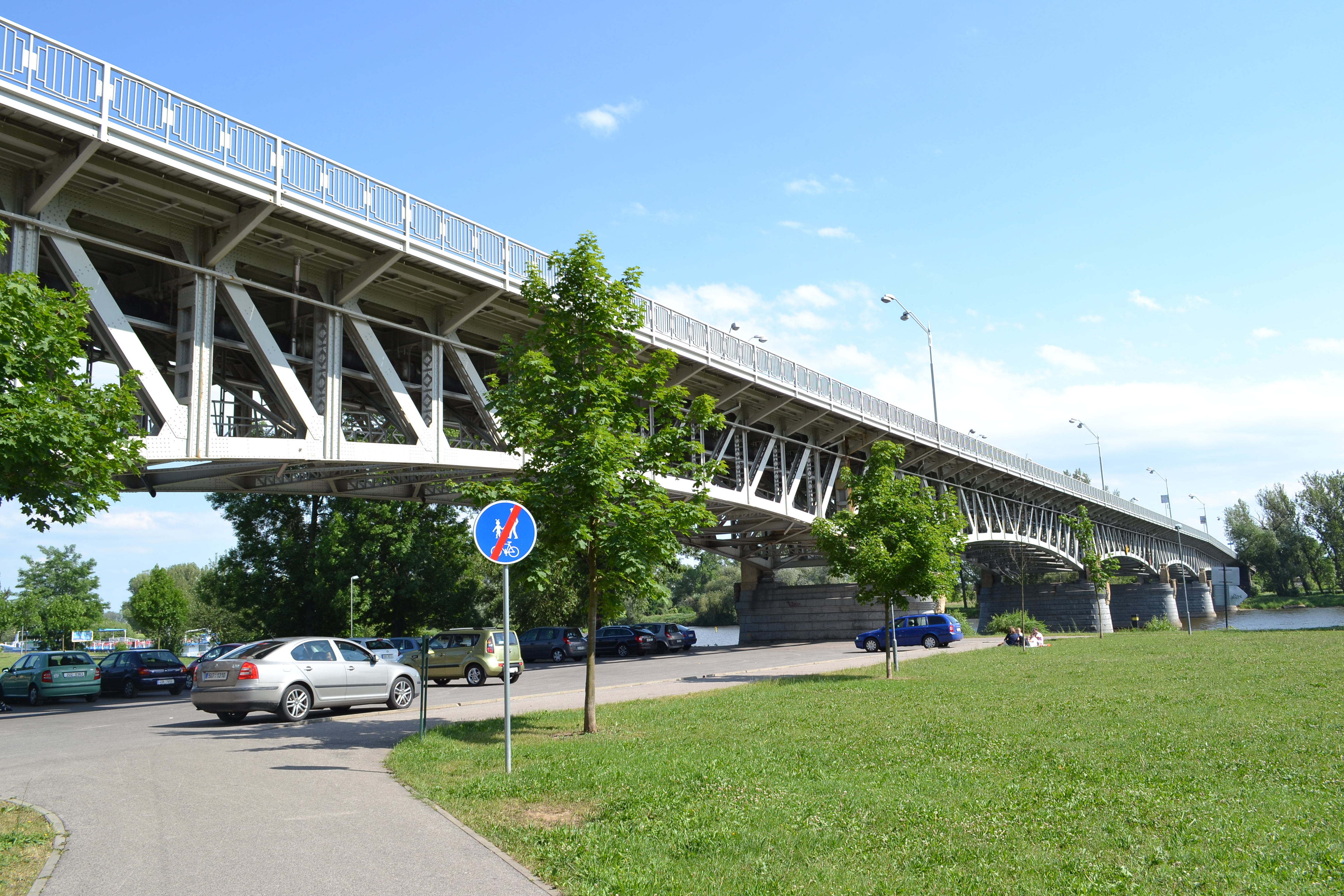 "Tyršův" bridge in Litoměřice, Ústí nad Labem region, Czech Republic.